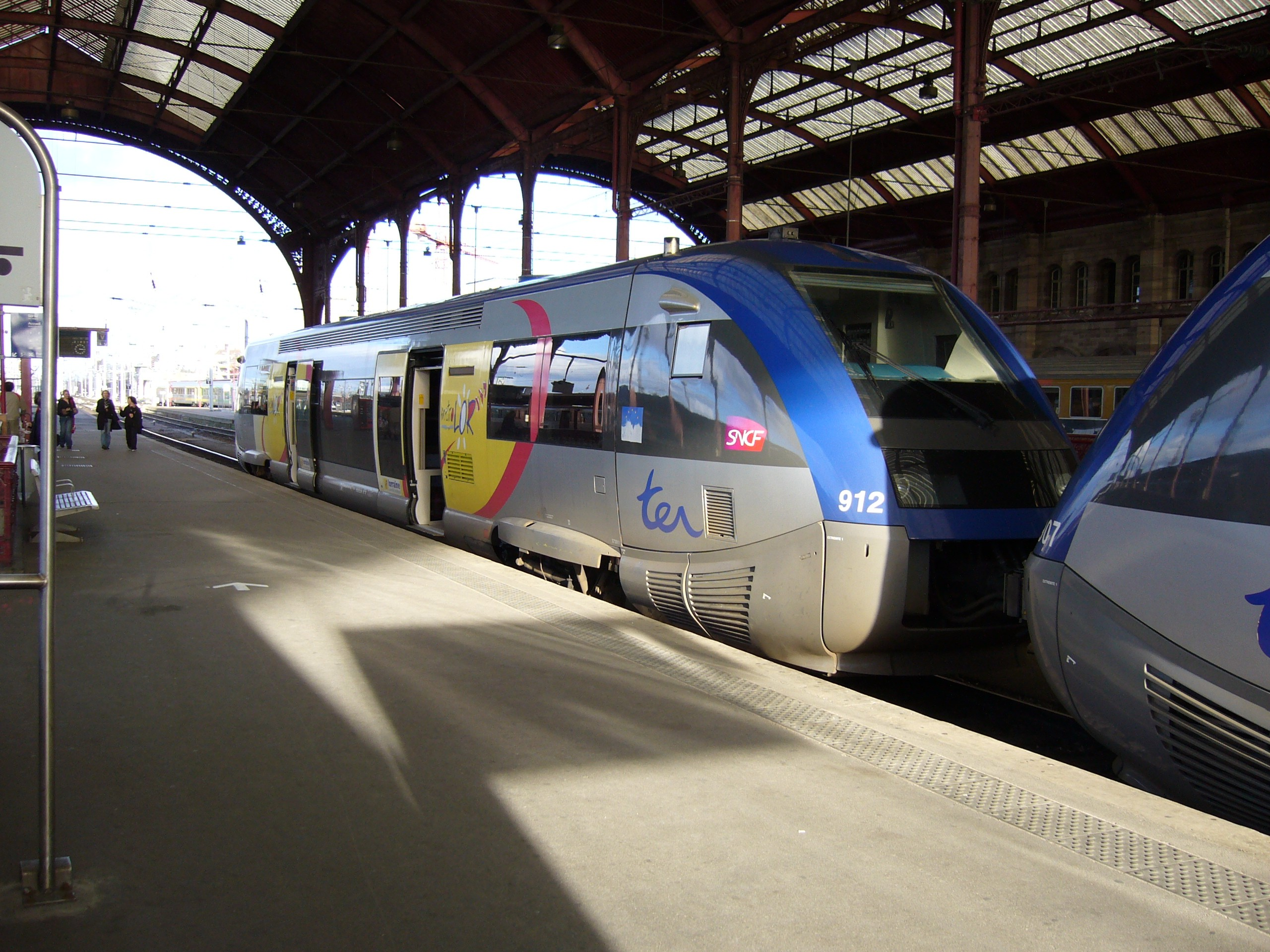 In Strasbourg Central Station photographed on 21.1.07. Regional train from Strasbourg to Offenburg. Series 641 in double traction. SNCF vehicle, not the DB.